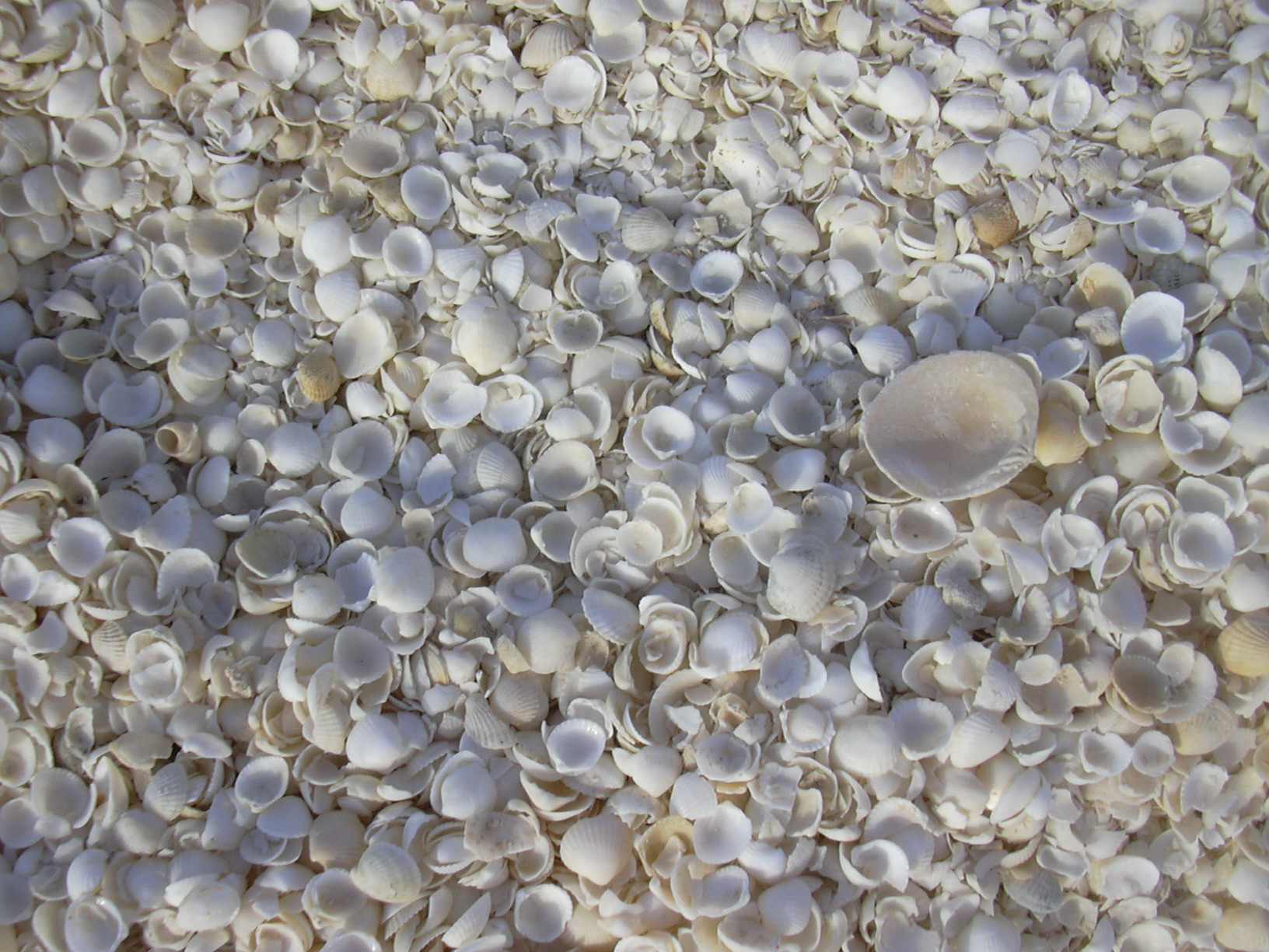 Carbiid cockles at Shell Beach, Shark Bay/Western Australia